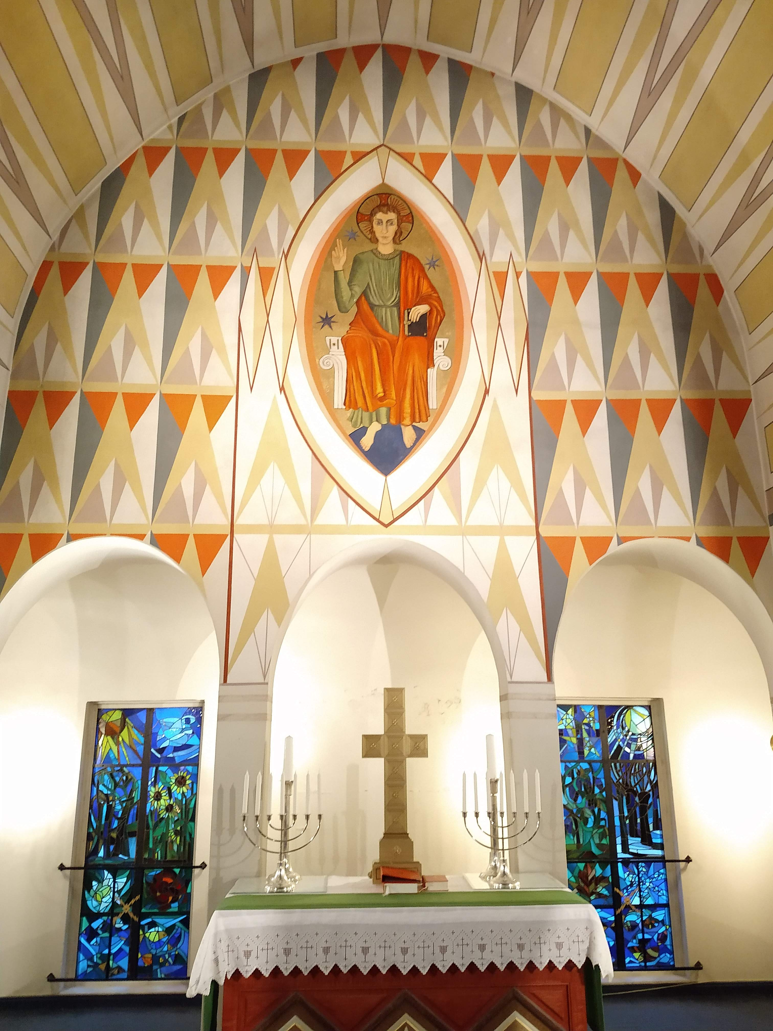 Altar wall in Vadsø church